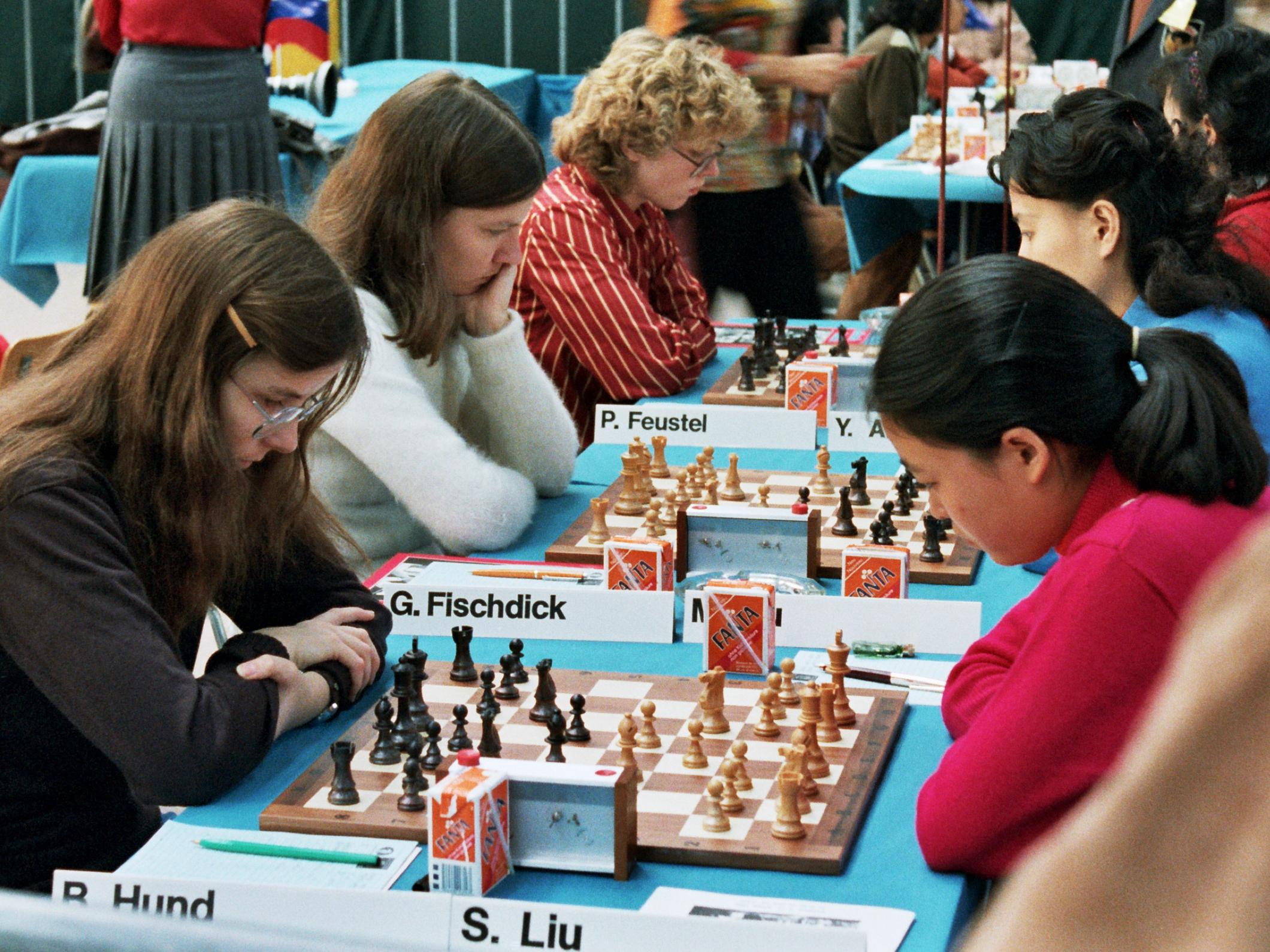 Germany (Barbara Hund, Gisela Fischdick, Petra Feustel) - China, Chess Olympiad 1982 in Lucerne, Photographer Gerhard Hund.